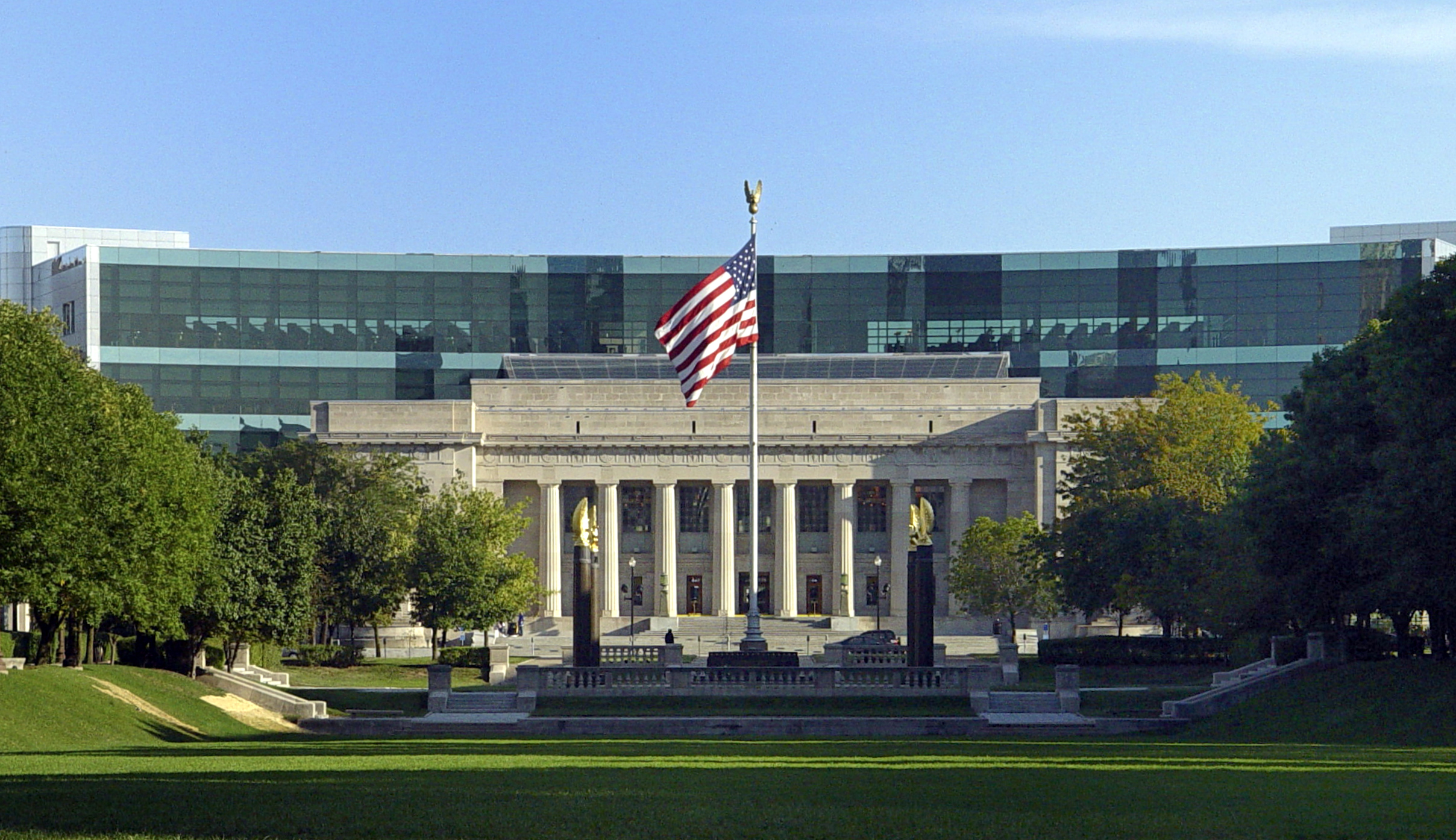 Notice the ugly thing behind it.? that is the new modern addition.